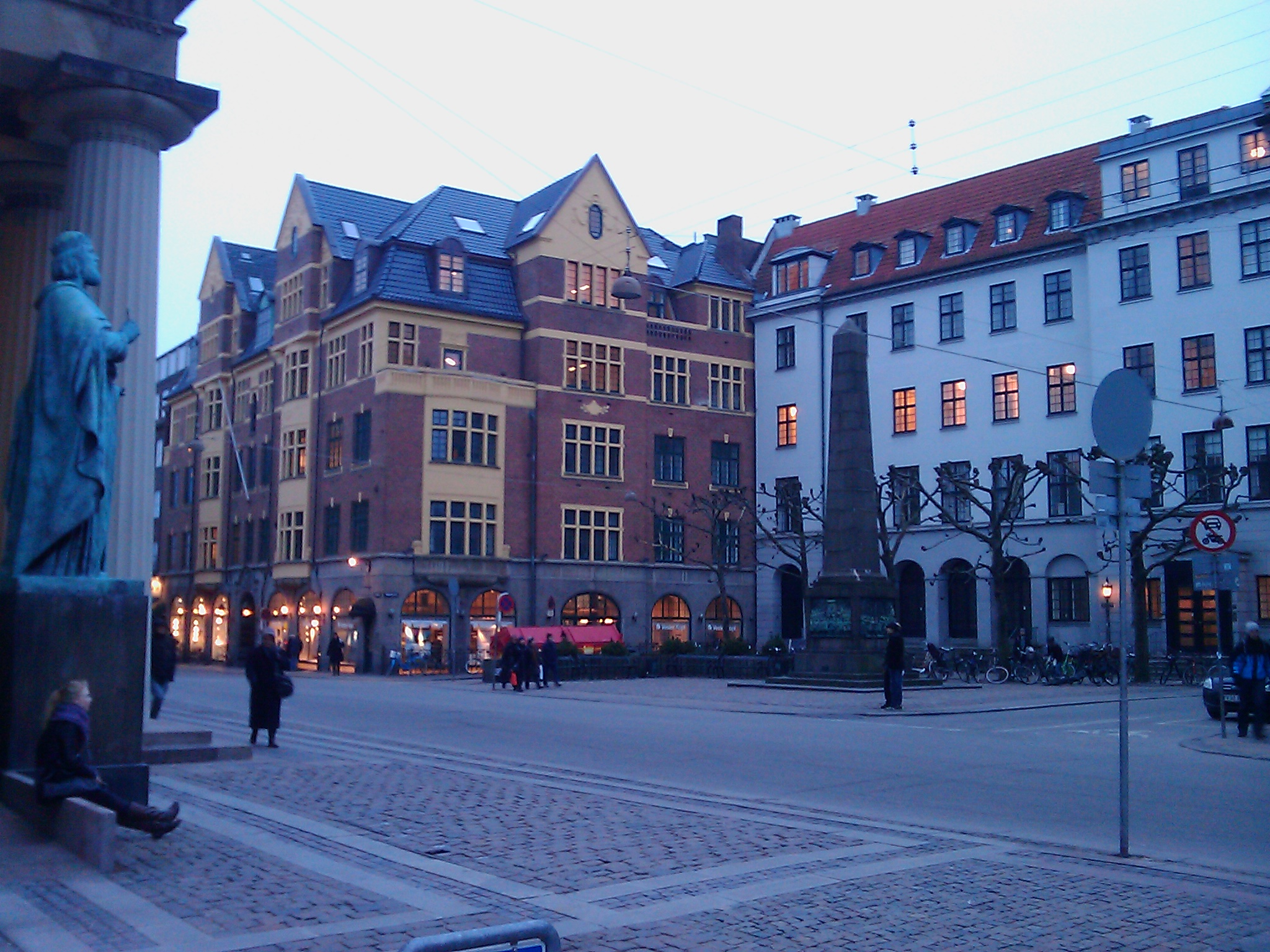 Picture of the square Bispetorvet in Copenhagen.